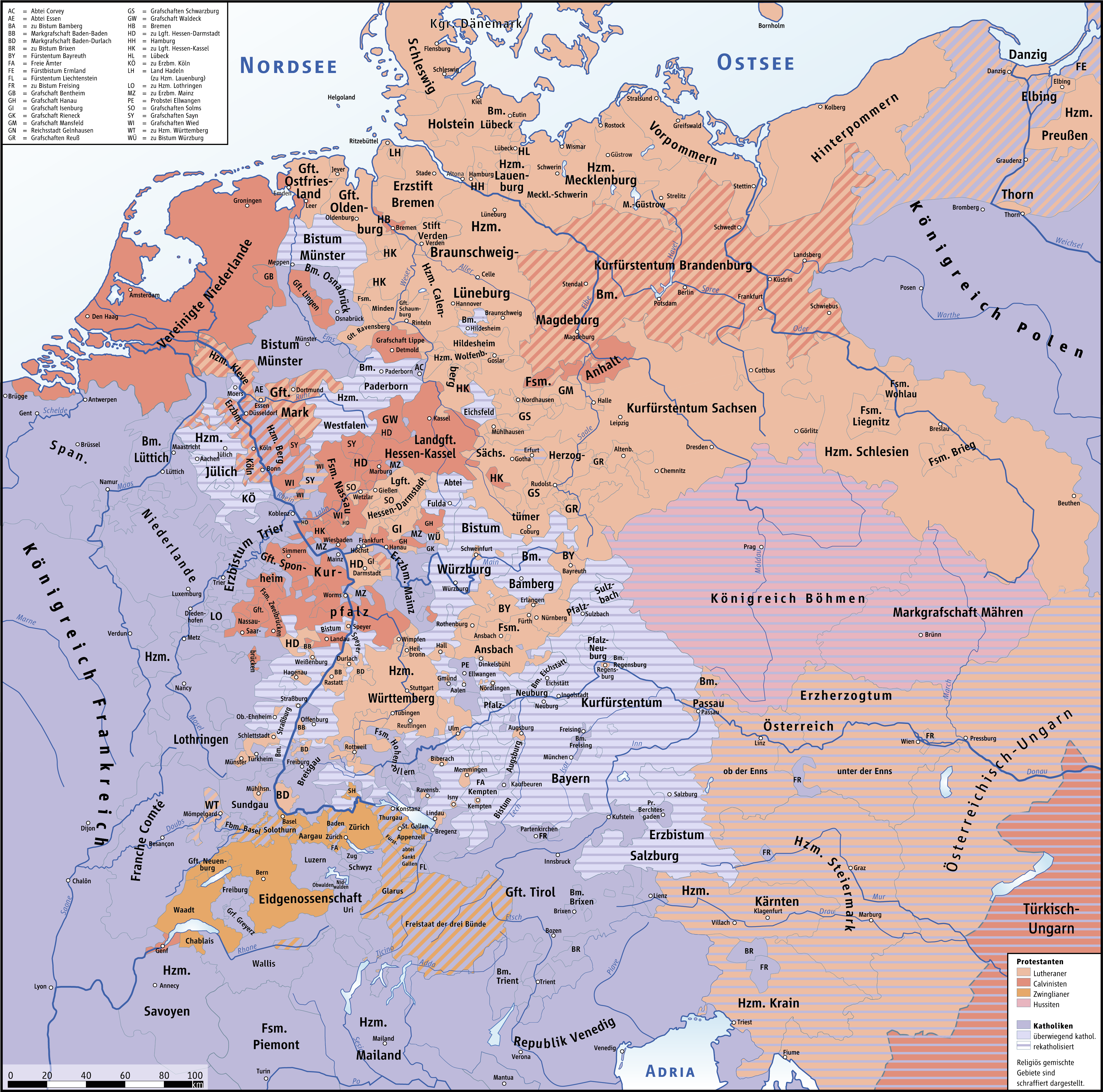 Map of the religious situation in central europe, 1618